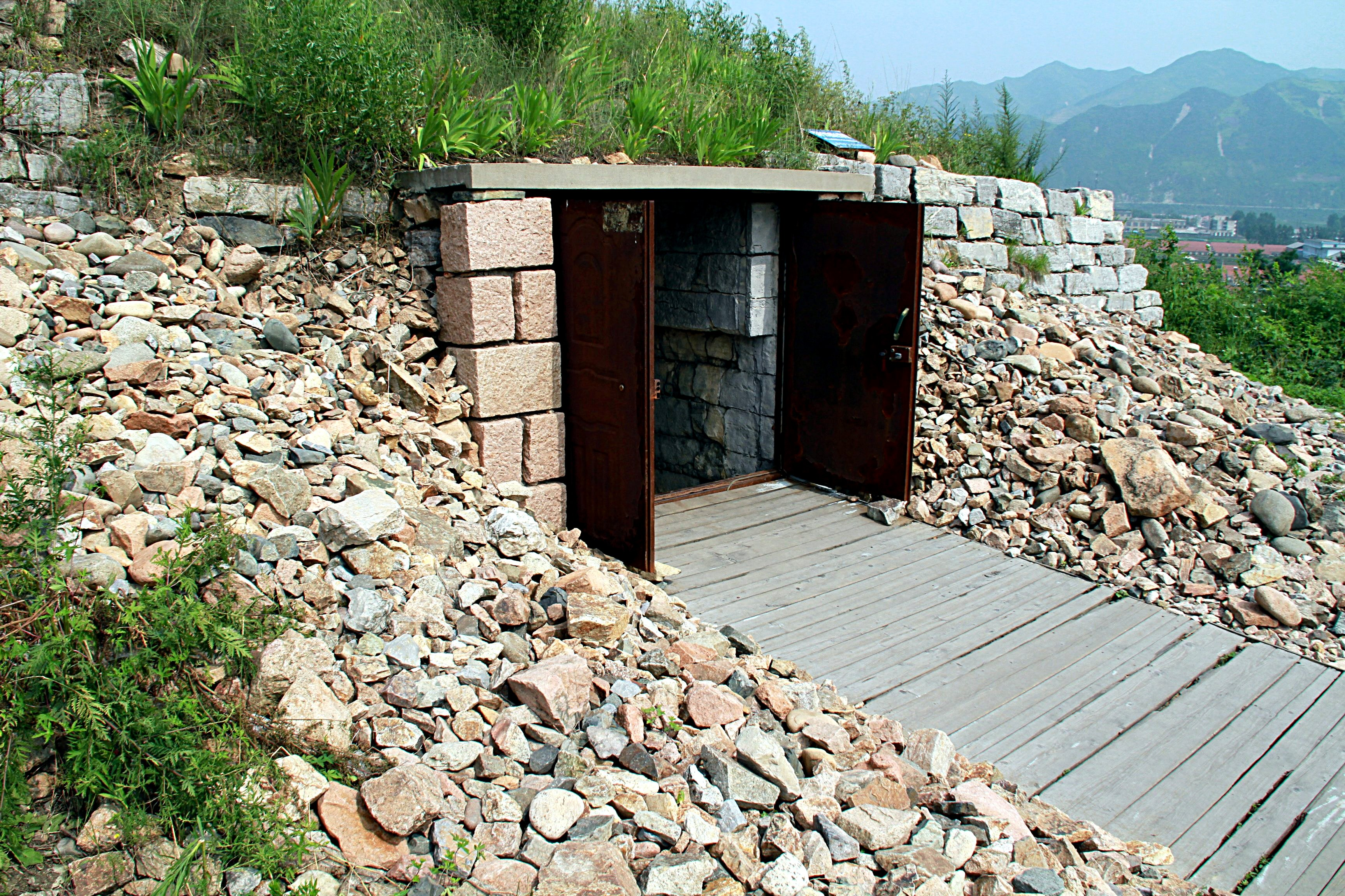 Photograph of the entrance to the burial chamber of the tomb of Gwanggaeto the Great of Goguryeo in Ji'an, Jilin Province, China.